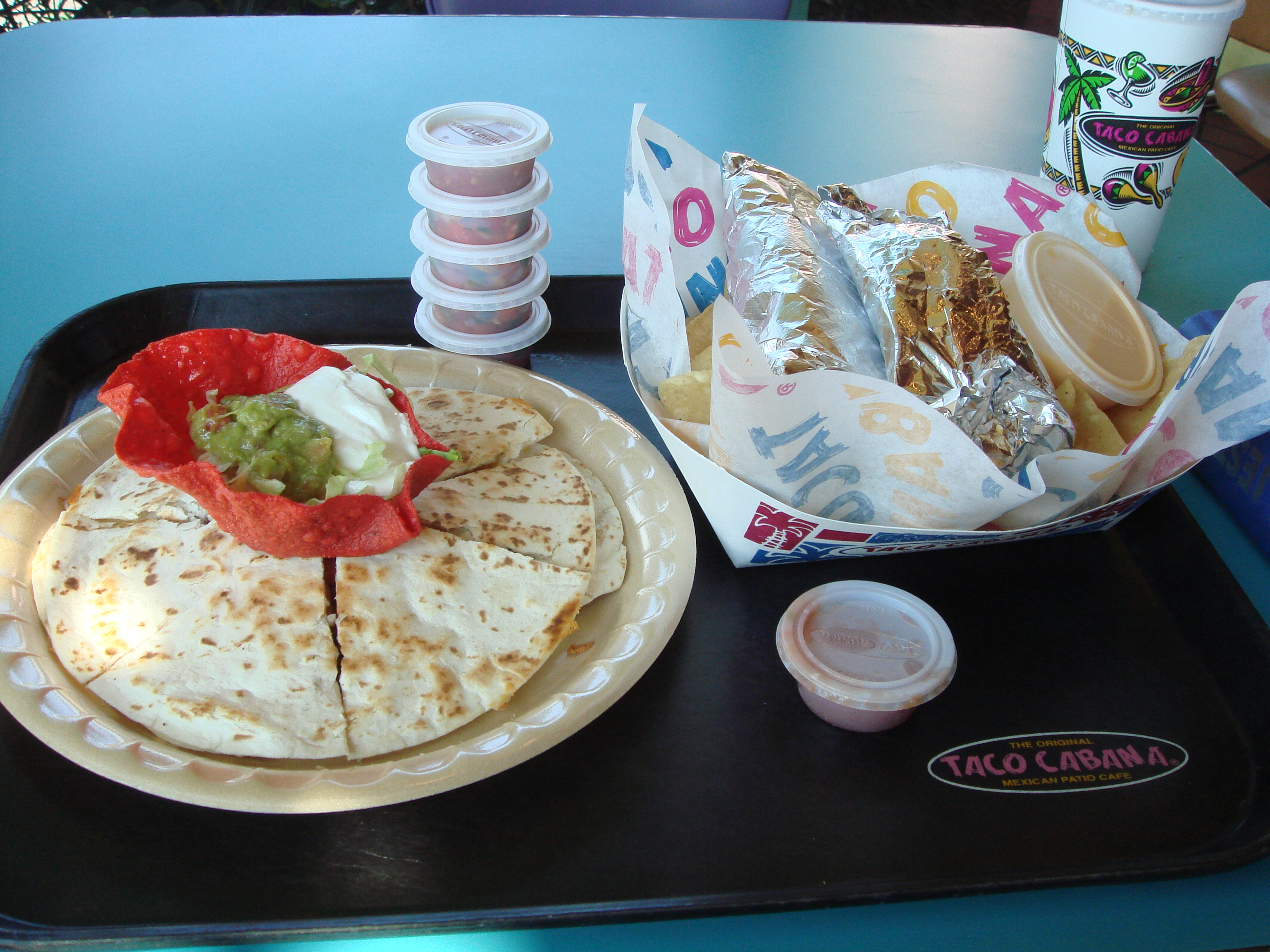 A quesadilla with guacamole and sour cream in a red tortilla cup resting atop it, foil wrapped tacos sitting atop a basket of tortilla chips, stacked condiment containers of salsa, a condiment container of cheese sauce, and a drink as served at Taco Cabana.quesadilla and tacos